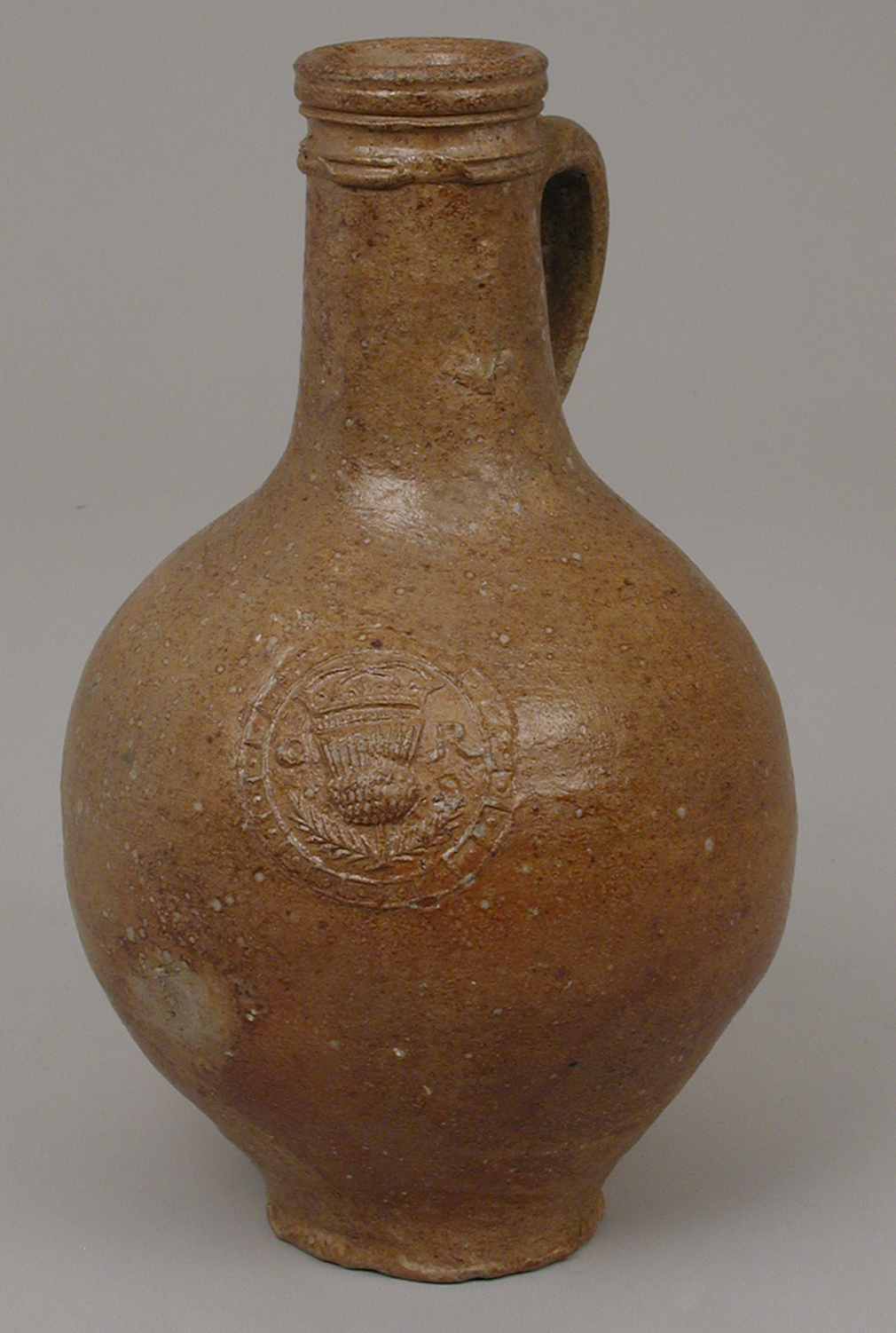 British, Fulham; Bottle; Ceramics-Pottery